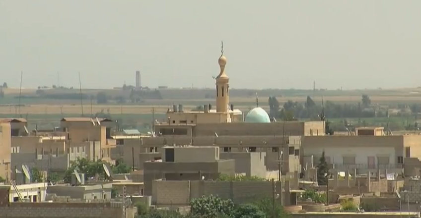 View of Serekani (Ra's al-'Ayn), Kurdish Syria from the Turkish side of the border.